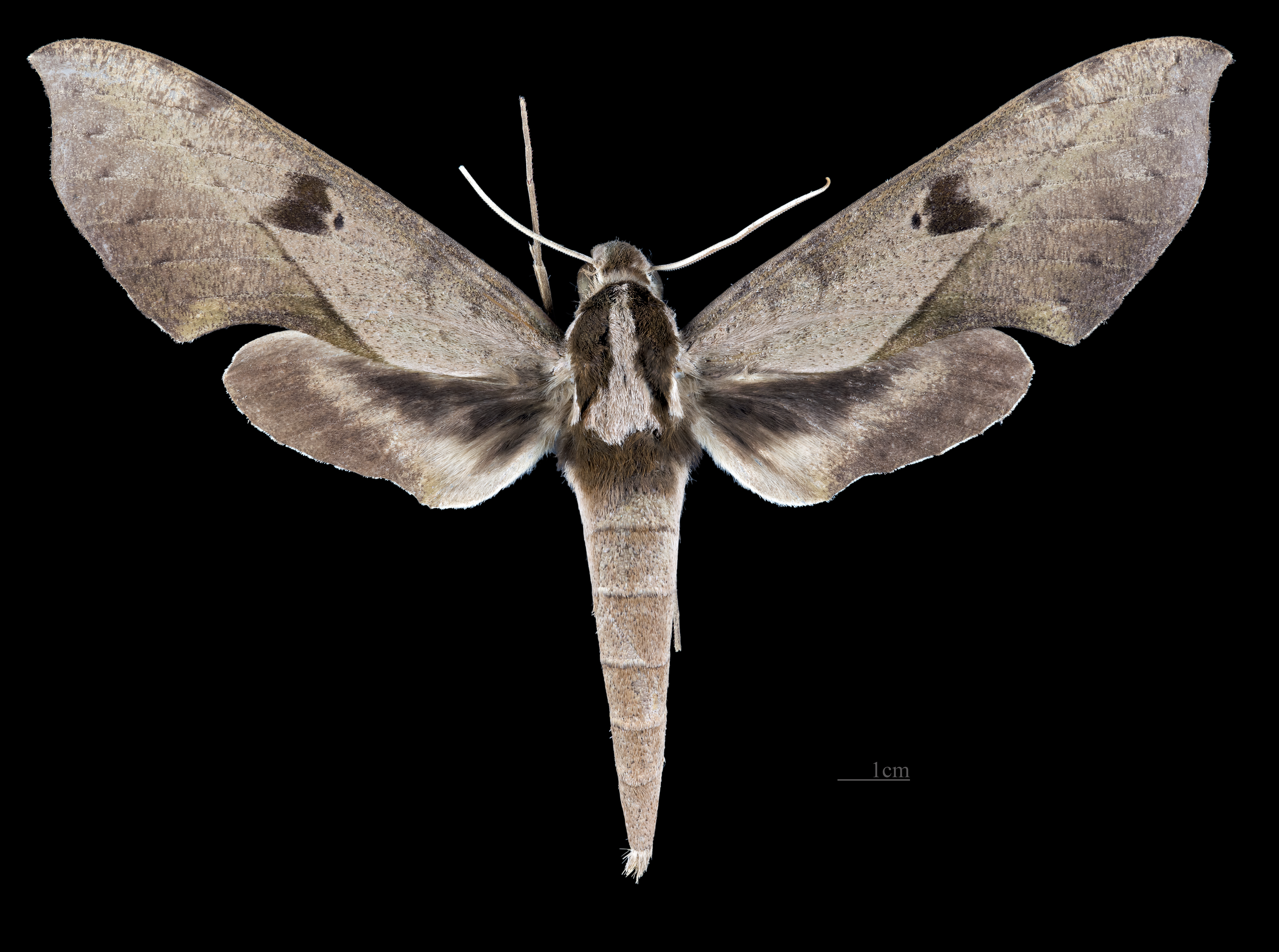 Xylophanes obscurus - Dorsal side Collection of the Mathematician Laurent Schwartz